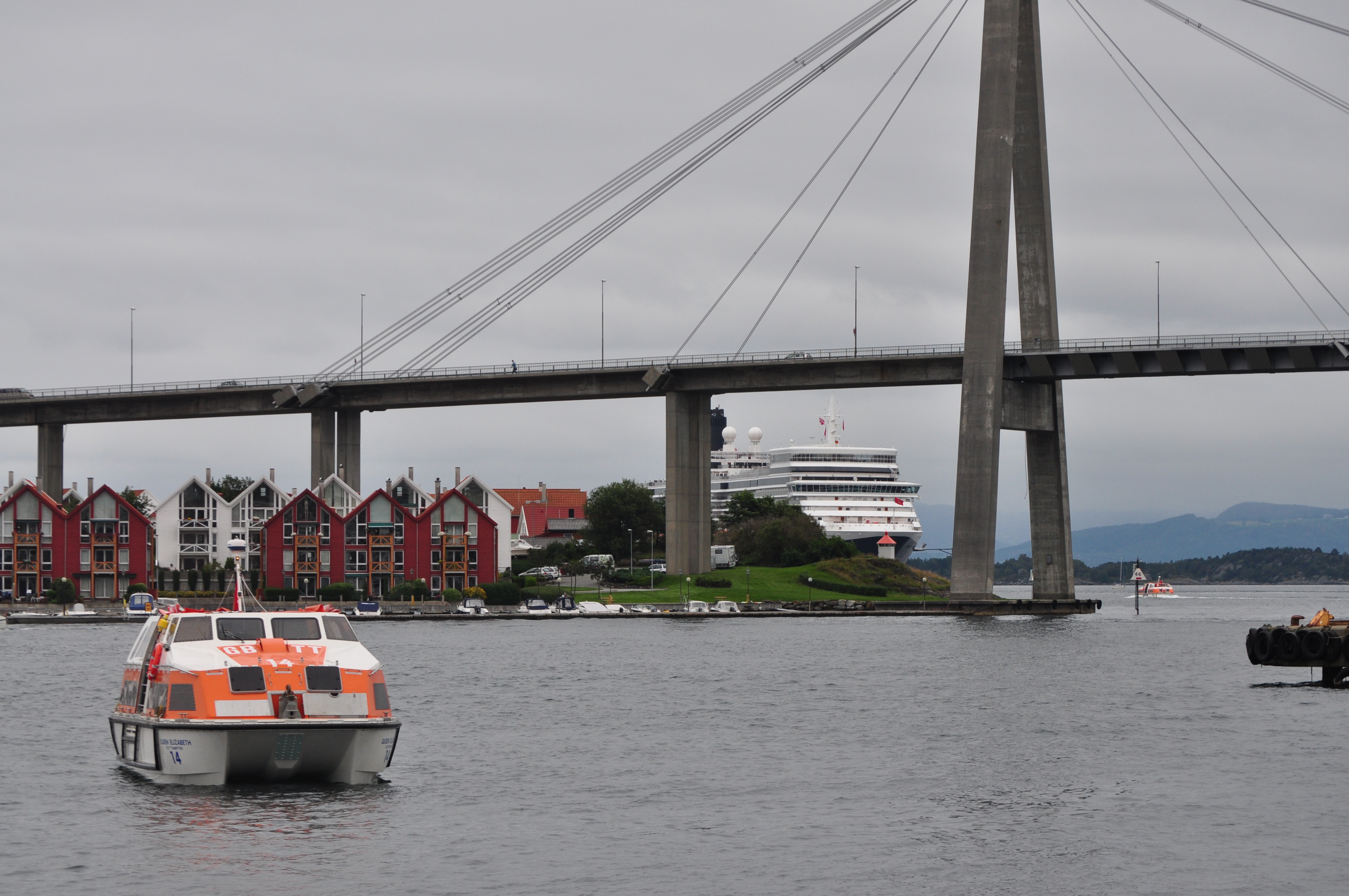 Cunard's Queen Elizabeth tender 14 with ship in background.